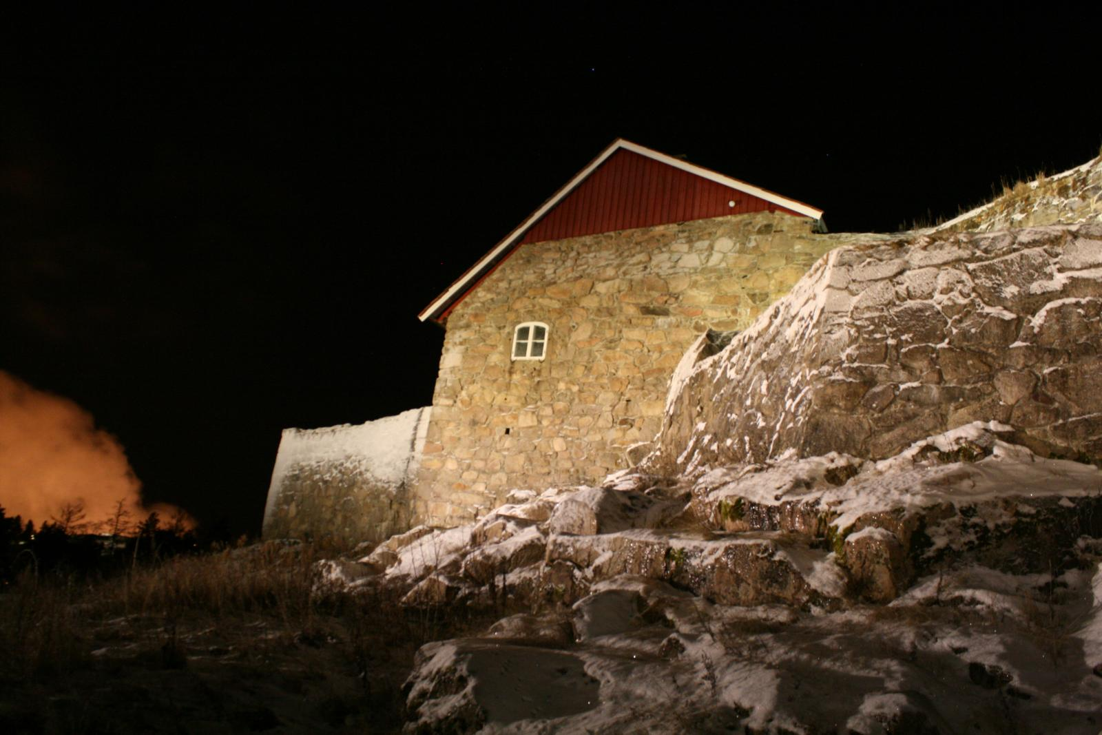 Overrock fort, Fredriksten fortress in Halden